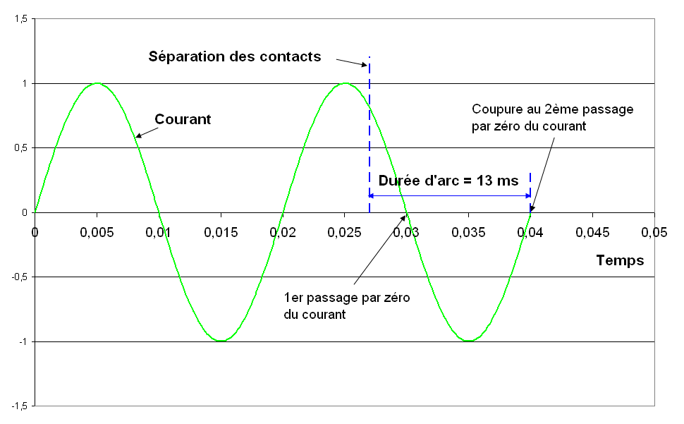 Arcing time of HV circuit breaker